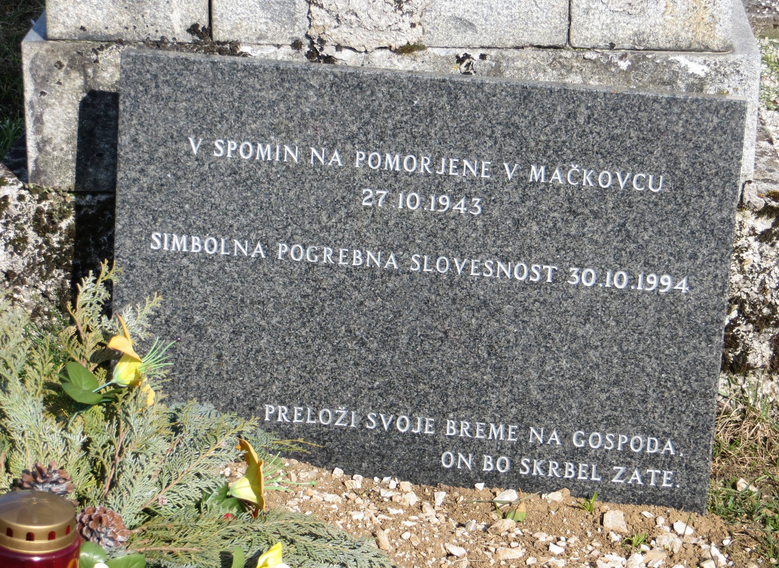 Cemetery plaque in Begunje pri Cerknici, Municipality of Cerknica, Slovenia commemorating the reburial of 40 victims from the Mačkovec Mass Grave in Bukovec